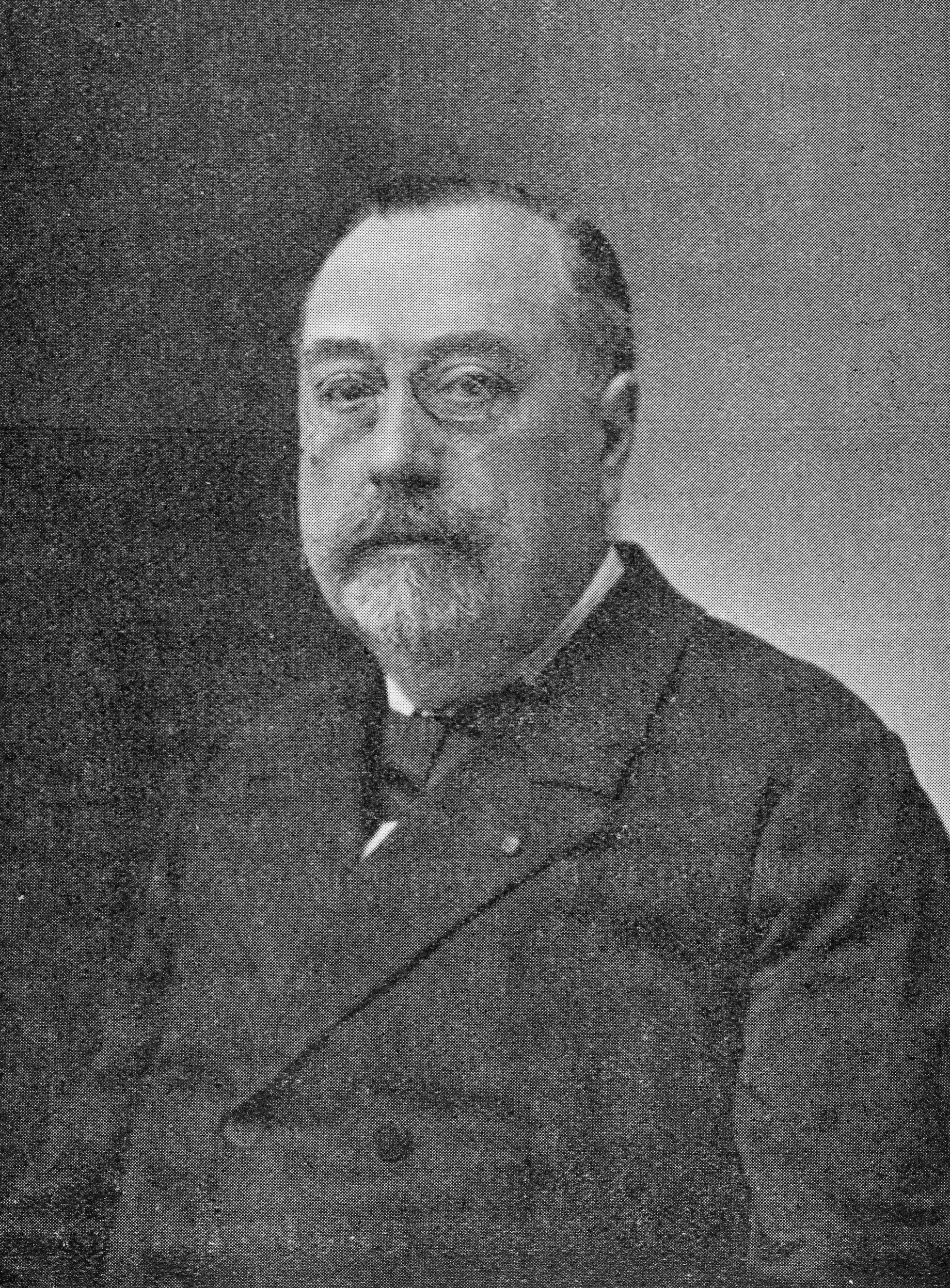 Book by Pierre de Coubertin